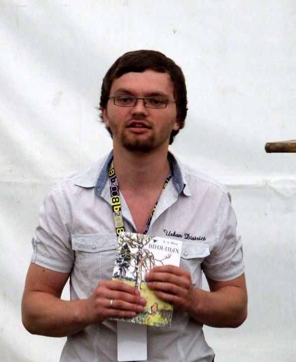 Vital Voranaŭ presents Belarusian translation of Winnie-the-Pooh, Music Festival of Young Belarus Basovišča 2008, Poland